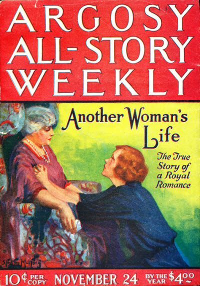 Cover of Argosy All-Story Weekly, November 24, 1923